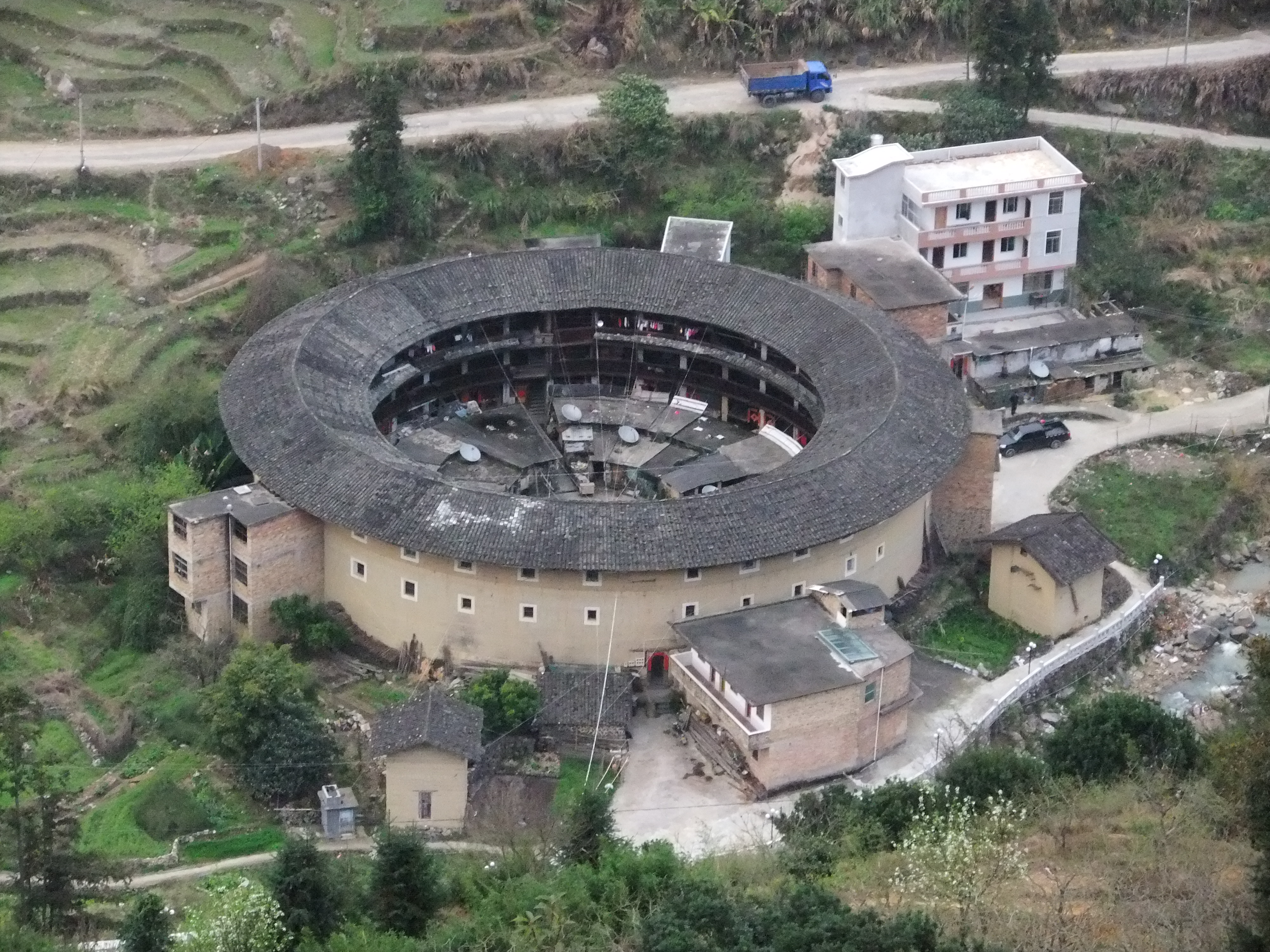 Sections of the "Great Wall of Tulou", seen from the hillside observation tower west of Nanjiang Village (南江村, Nanjiangcun, South River Village), Hukeng Town Yongding County.